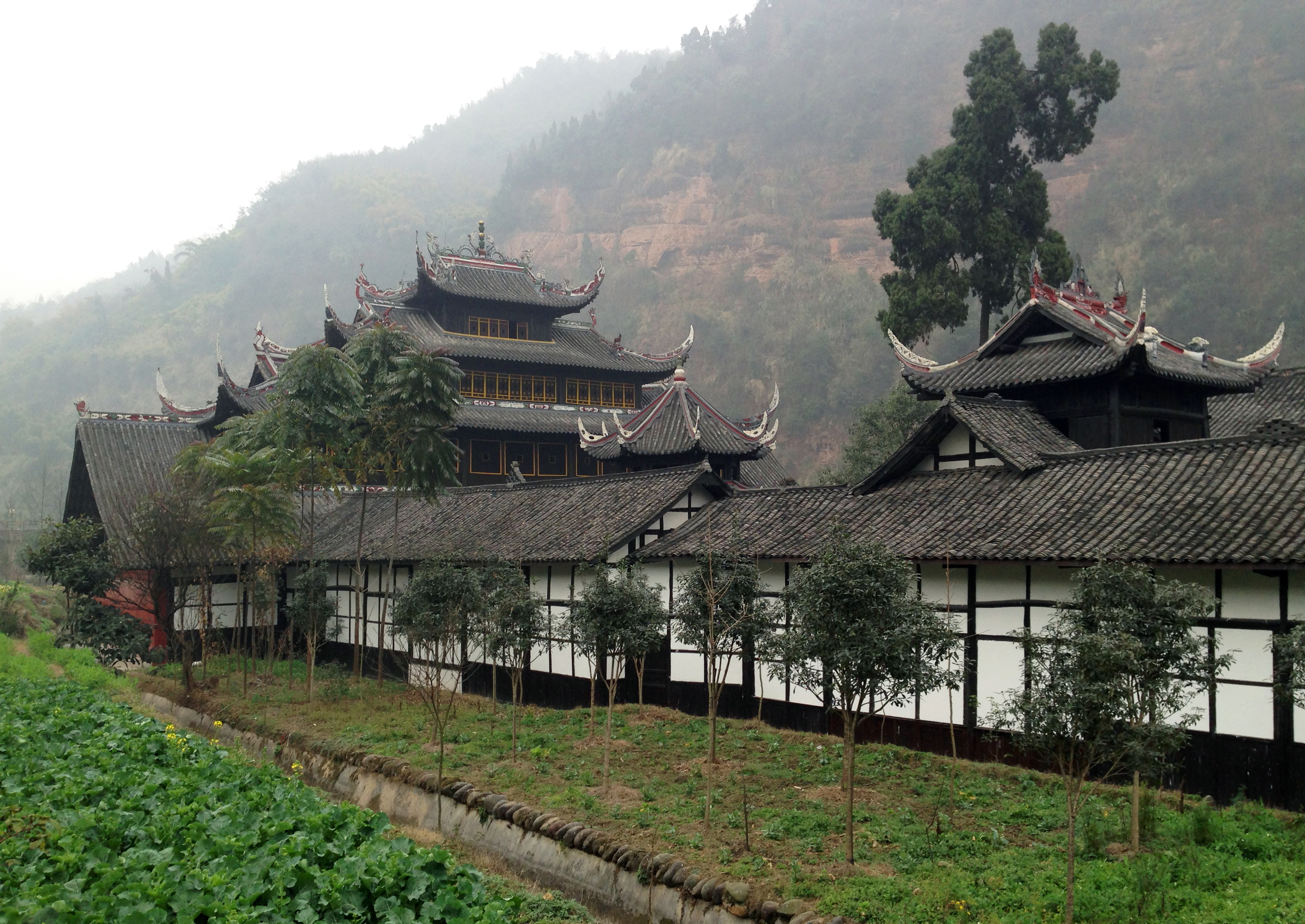 Chuanwang Palace, located in Xinchang, Chengdu, China, is a Chuanzhu (Sichuan's Master) worship temple built in 1926. It is listed as a Major Historical and Cultural Site Protected at the National Level.